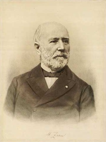 Marno Christian Frederik Zahn (1836-1919), Danish jurist, estate owner, and politician, MP